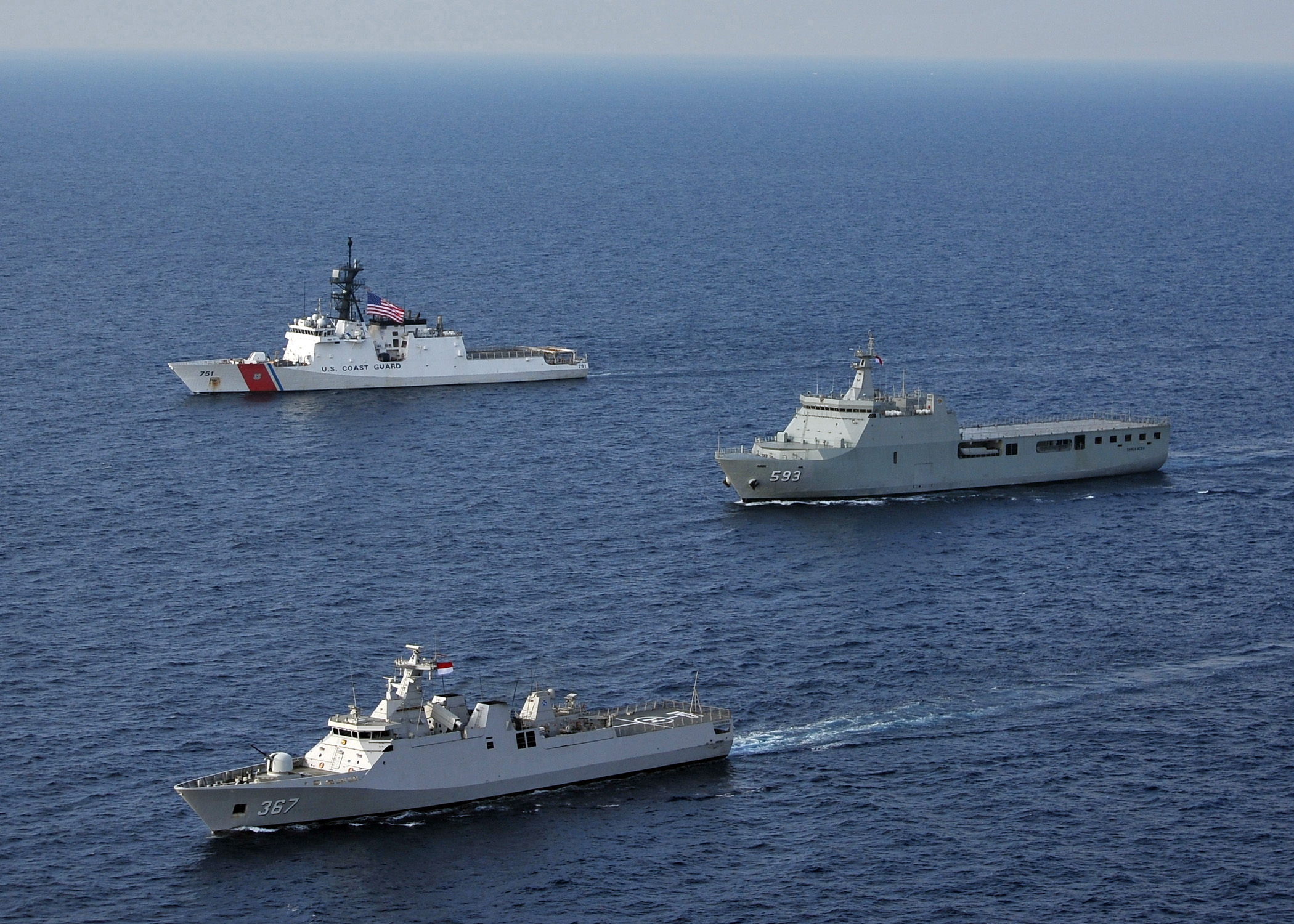 120606-N-HI414-603 JAVA SEA (June 6, 2012) The Indonesian navy Sigma-class corvette KRI Sultan Iskandar Muda (SIM 367), the Indonesian navy landing platform dock ship KRI Banda Aceh (BAC 593) and the Legend-class national security cutter USCGC Waesche (WMSL 751) transit the Java Sea while conducting ship formation exercises during the at-sea phase of Cooperation Afloat Readiness and Training (CARAT) 2012 Indonesia. CARAT 2012 is a nine-country, bilateral exercise between the United States and Bangladesh, Brunei, Cambodia, Indonesia, Malaysia, Singapore, the Philippines, Thailand, and Timor Leste and is designed to enhance maritime security skills and operational cohesiveness among participating forces. (U.S. Navy photo by Mass Communication Specialist 3rd Class Gregory A. Harden II/Released)